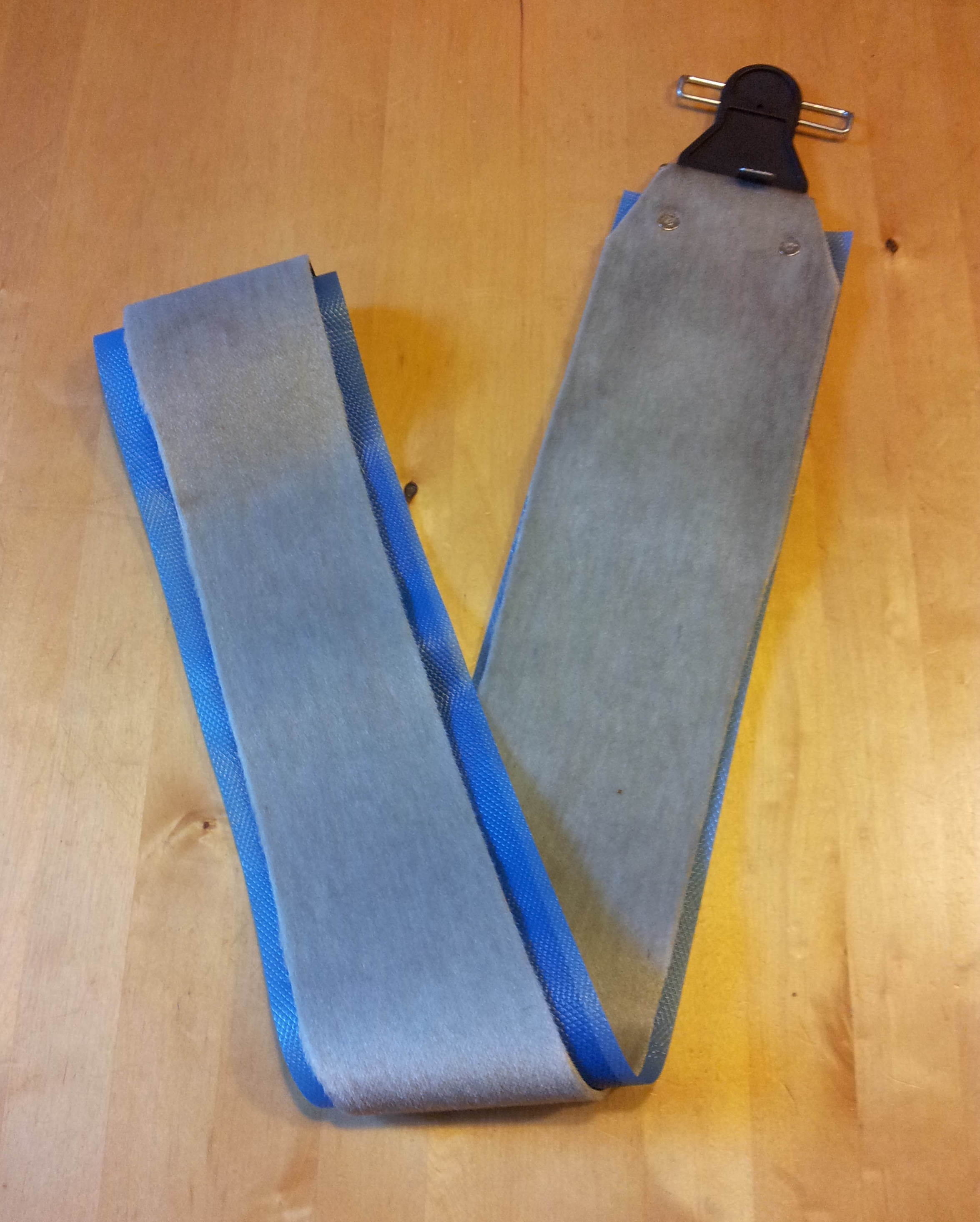 ski skin